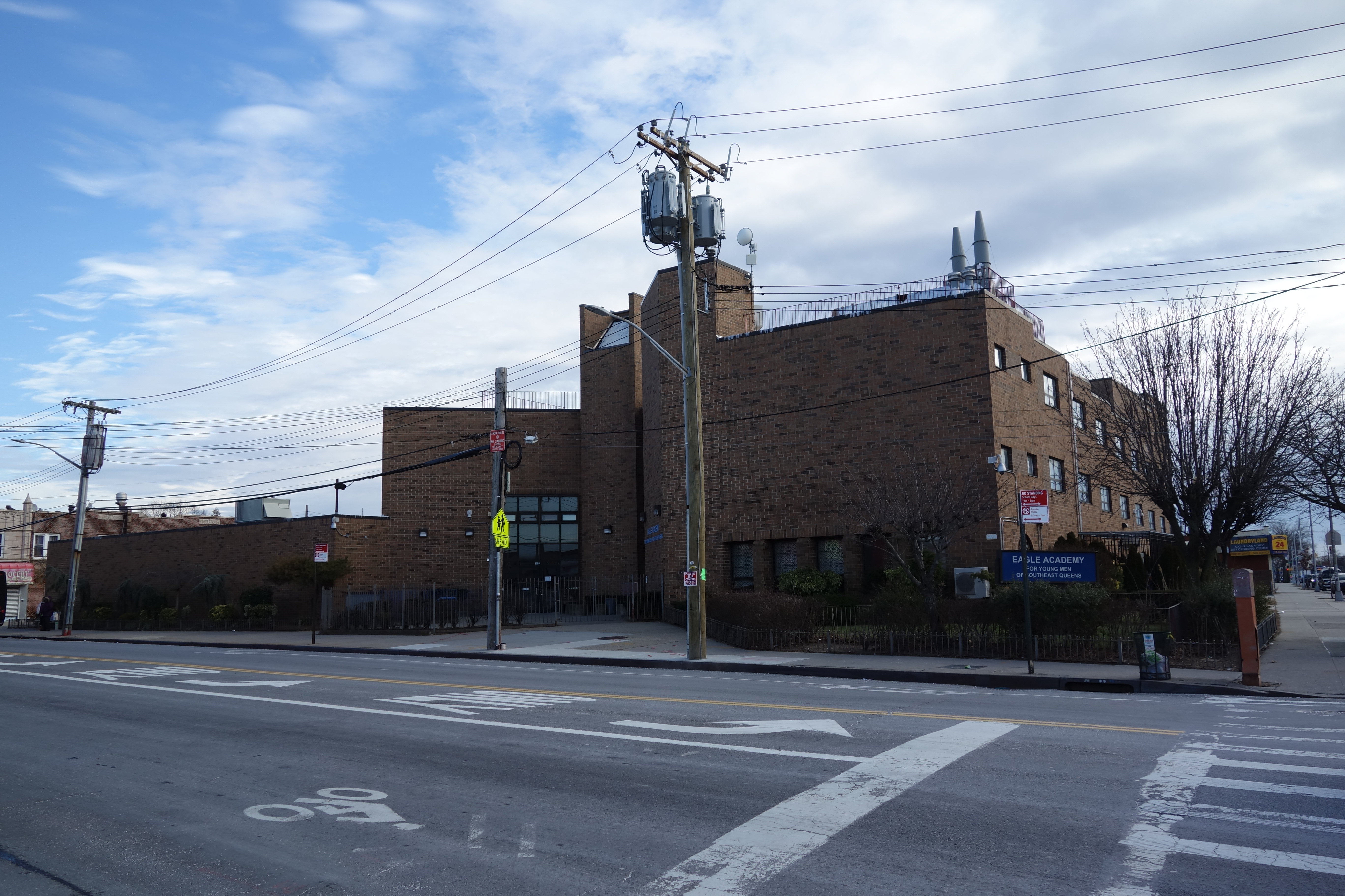 The Eagle Academy for Young Men of Southeast Queens, at the southeast corner of Merrick Boulevard and Linden Boulevard in St. Albans / South Jamaica, Queens. It is one of five Eagle Academies in the city.